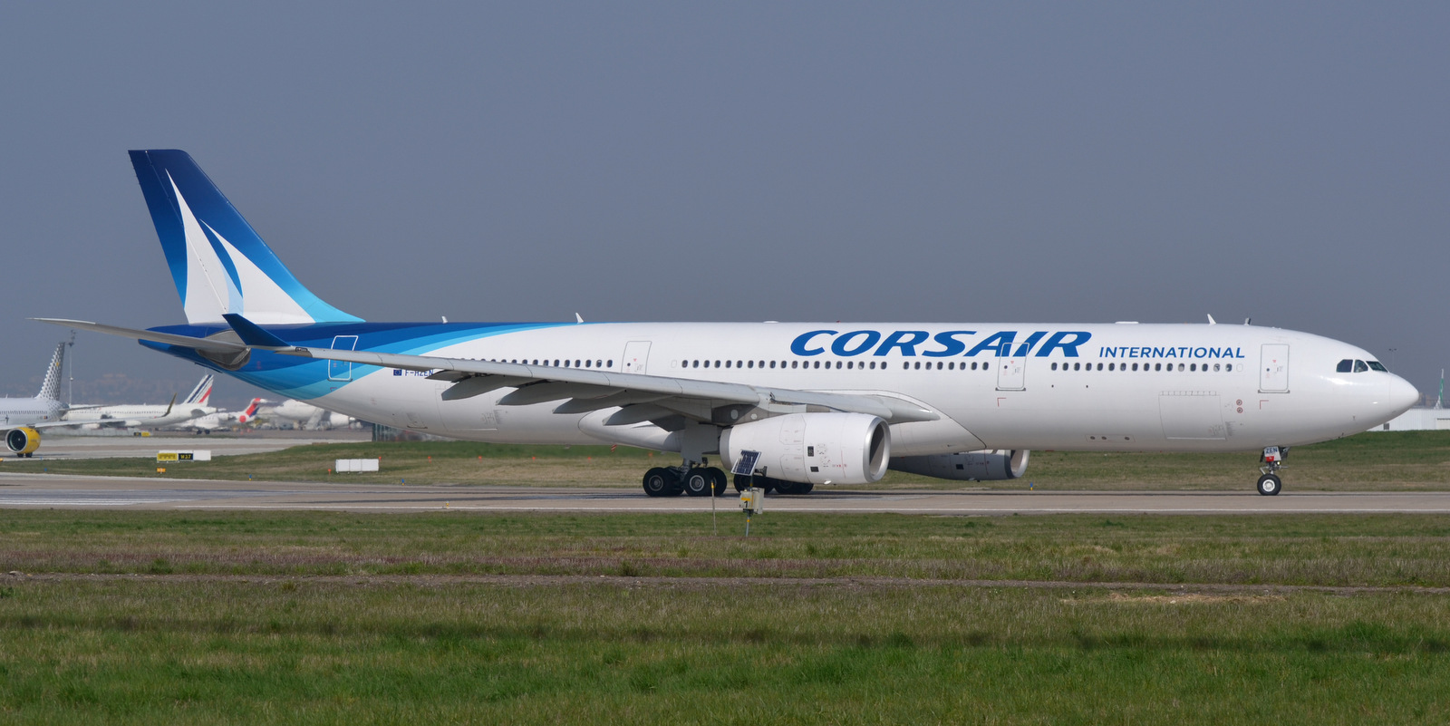 Paris-Orly Airport